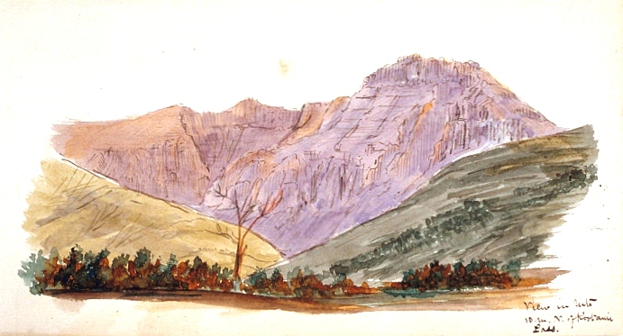 Painting, View in mts 10 m. N. of Kootenai Pass, George Dawson 1862-1863, 9.4 x 16.7 cm